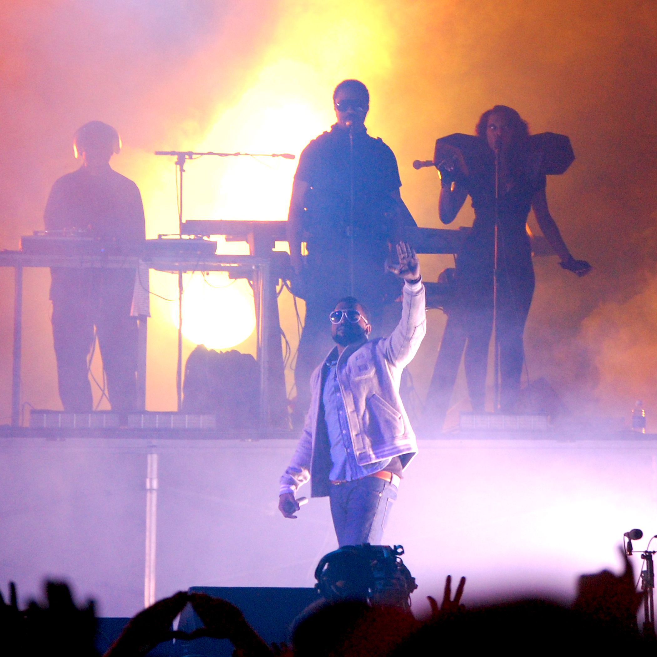 Kanye West performing at The Virgin Mobile Festival.